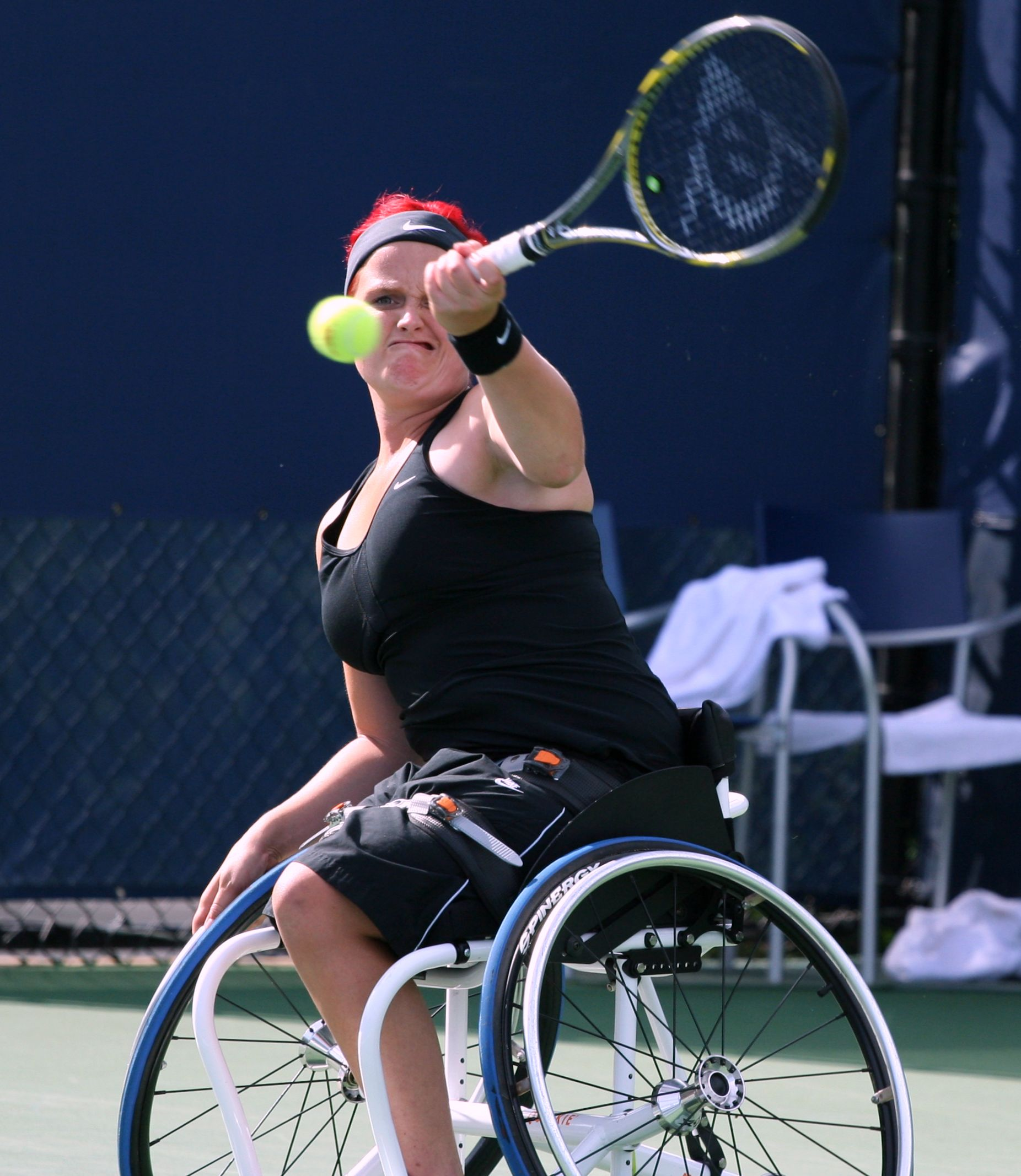 U.S. Open Wheelchair Thursday, Sept. 8, 2011